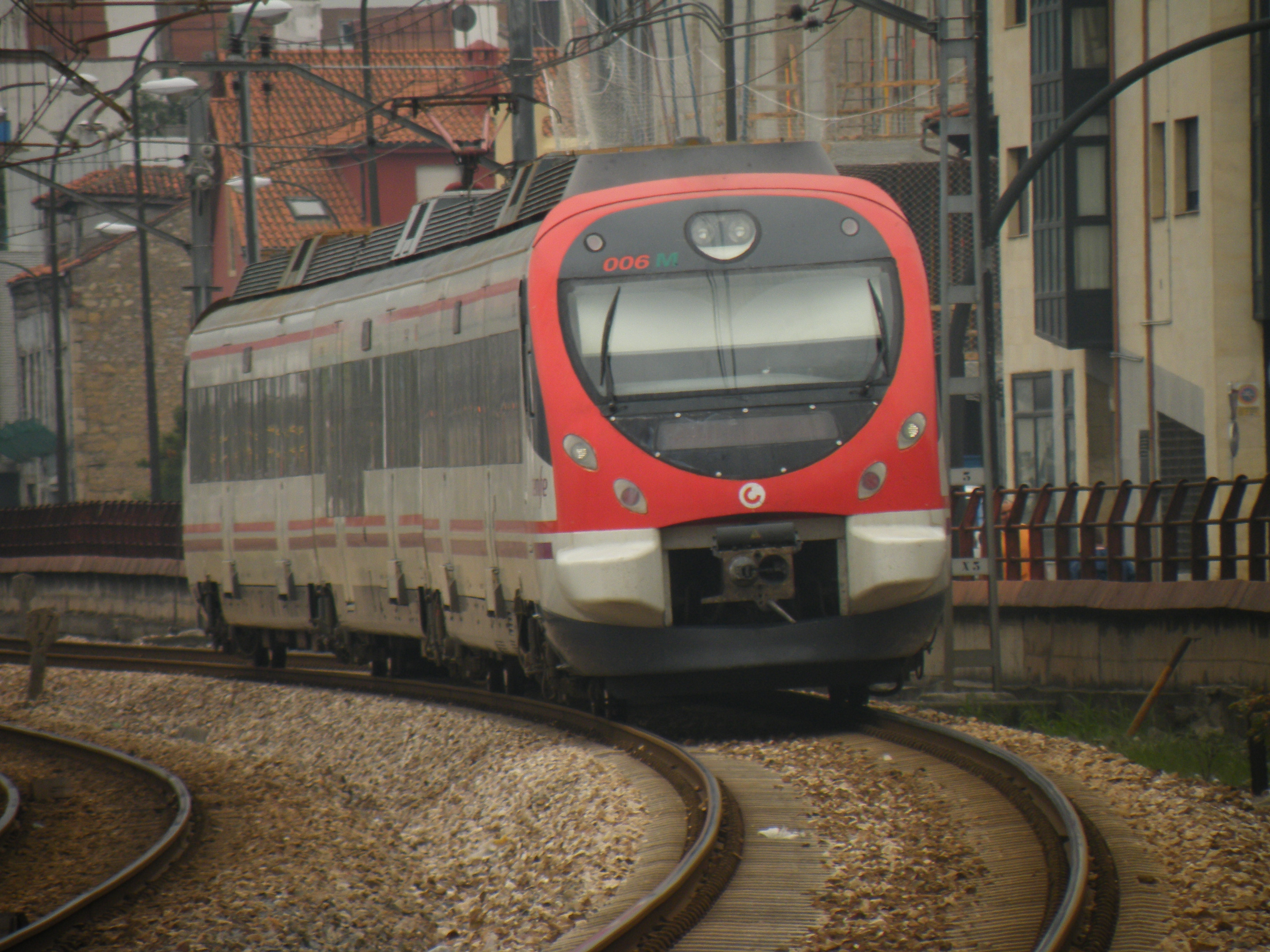 A Renfe cercanías train passing trough Avilés, Spain.